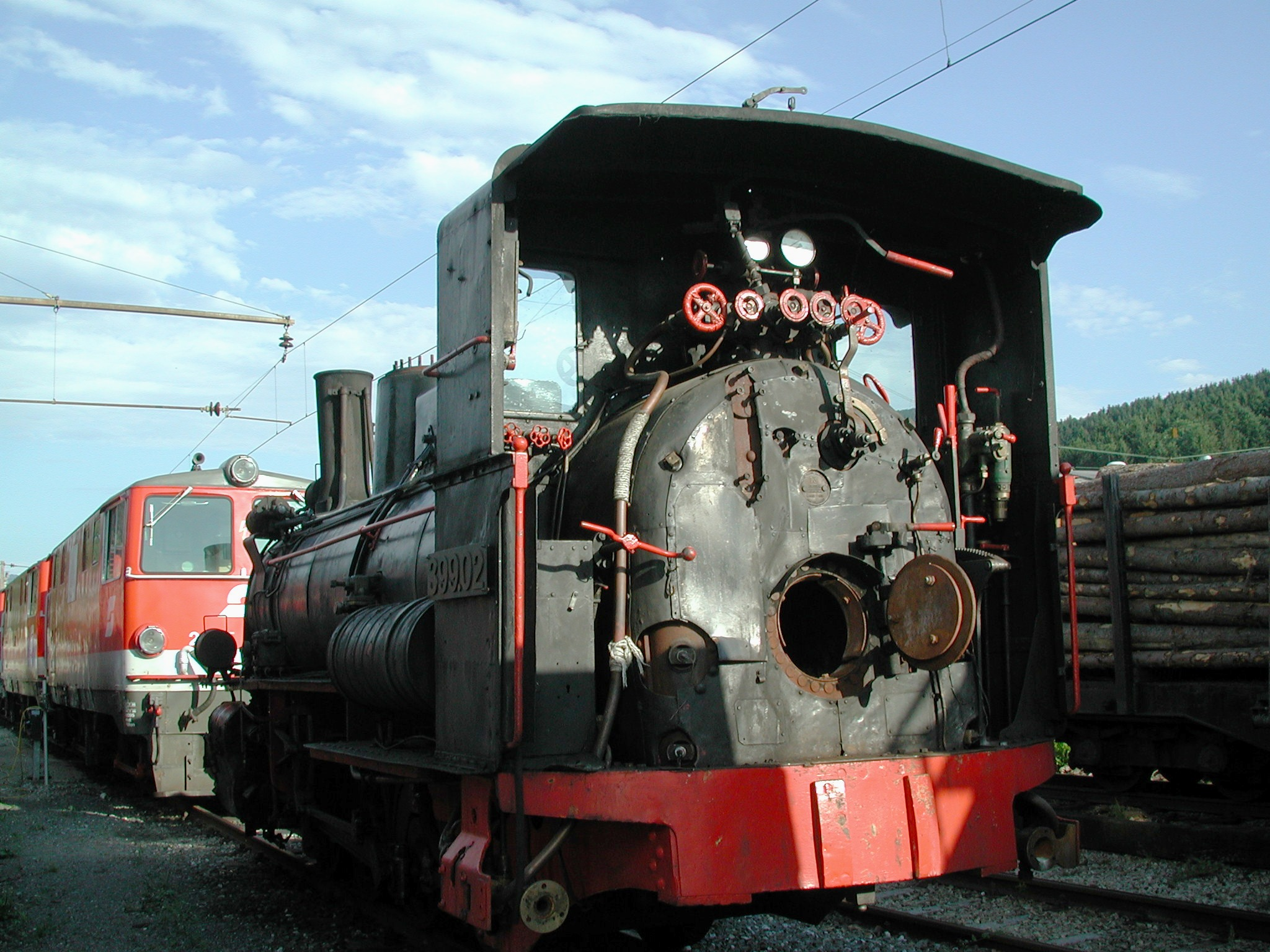 Engerth articulated 399.02 separated from tender in Waidhofen an der Ybbs depot.